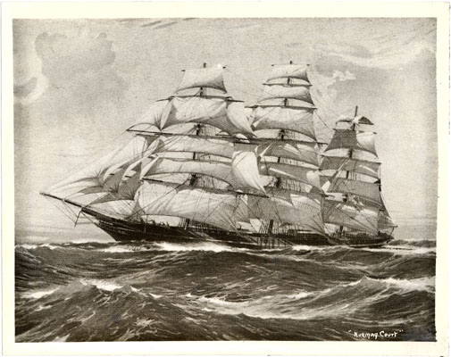 Painting of sailing ship Norman Court. 1 photographic print: b&w. "Norman Court. Type: Tea Clipper; Builder: A. & J. Inglis, Glasgow, July, 1869; Dimensions: 197'4" x 33' x 20'; Tonnage: 834; Full Name: Norman Court (also given as Normancourt)."